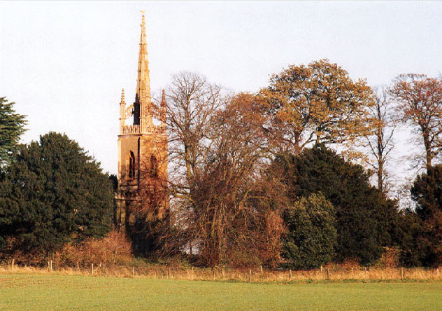 All Saints Church, Haugham. The church is a copy of the much larger Louth St James